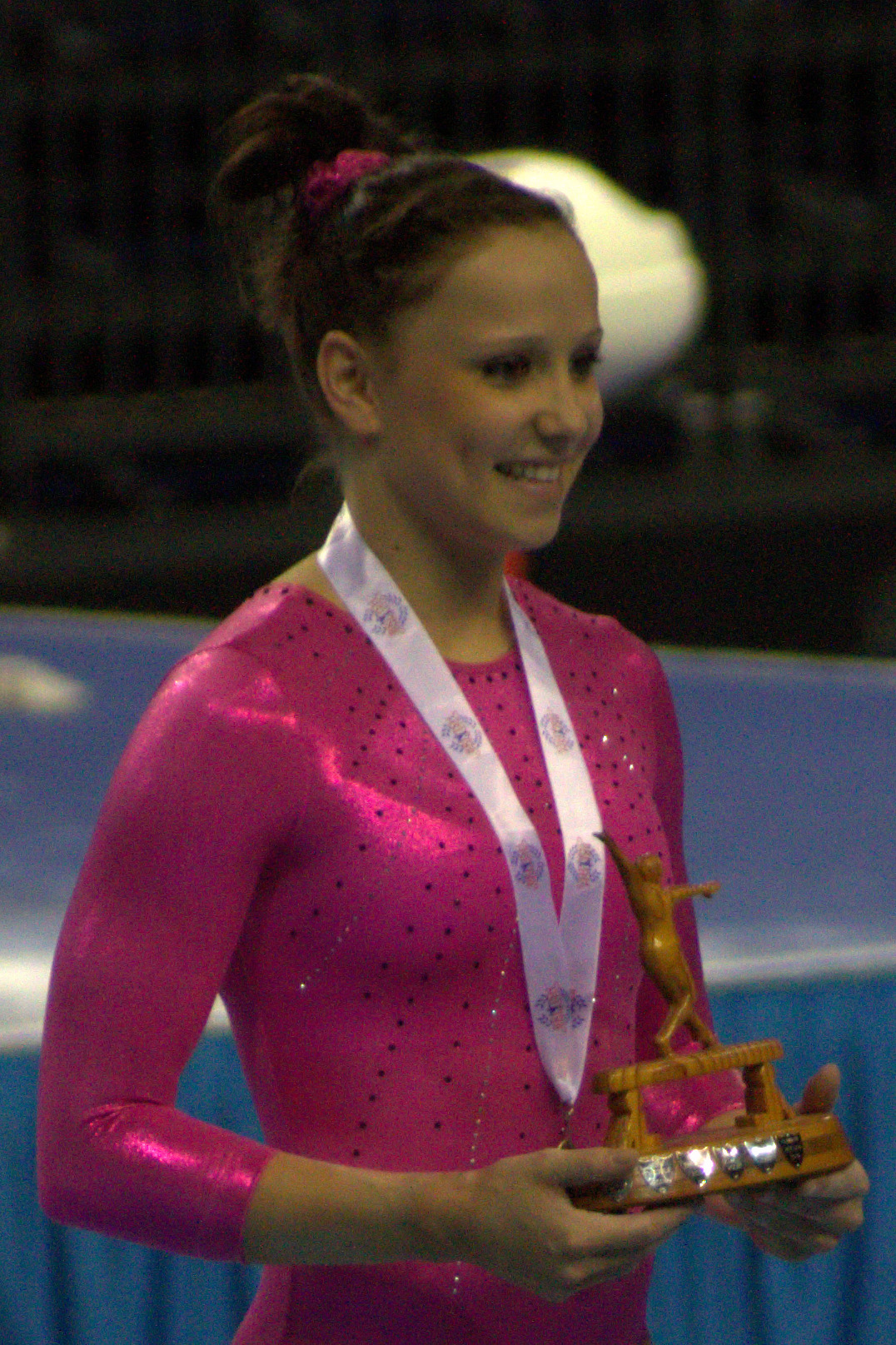 Hannah Whelan at the Women's Artistic Gymnastics British National Championships, 2011